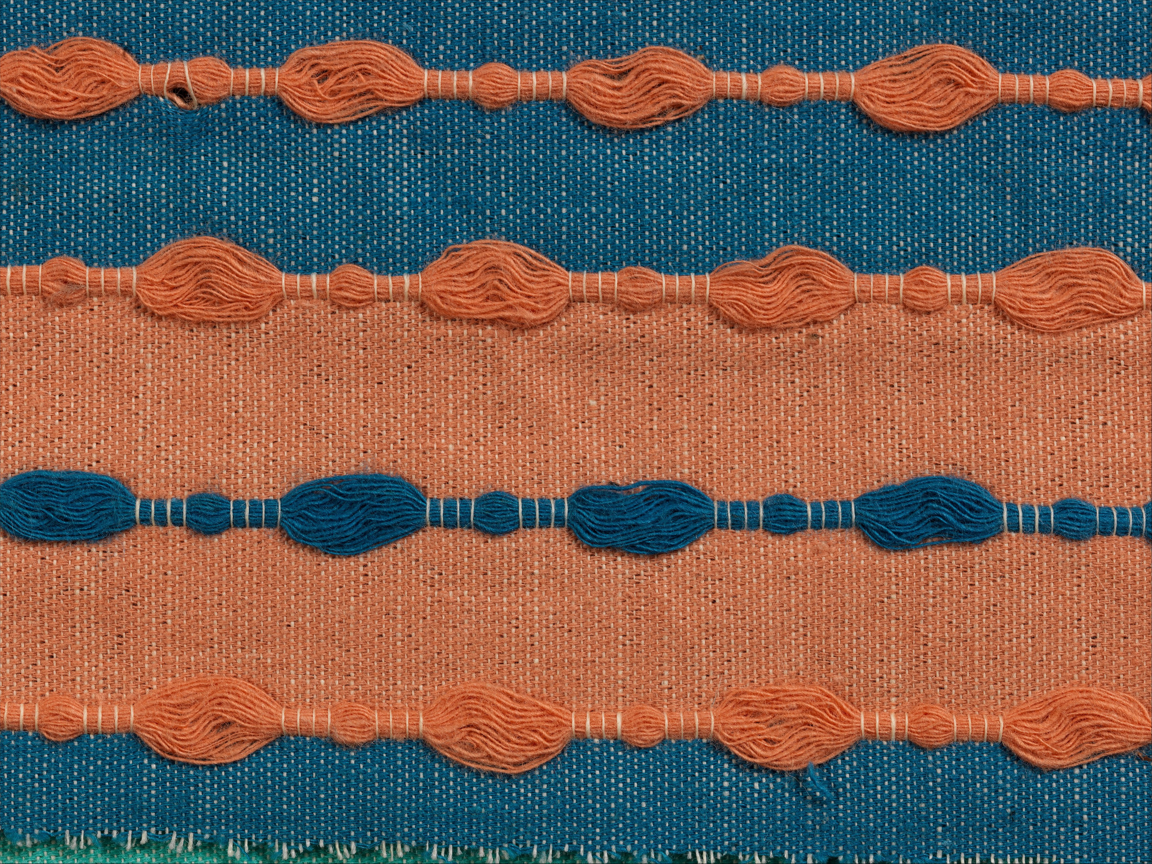 Book; Textiles-Sample Books